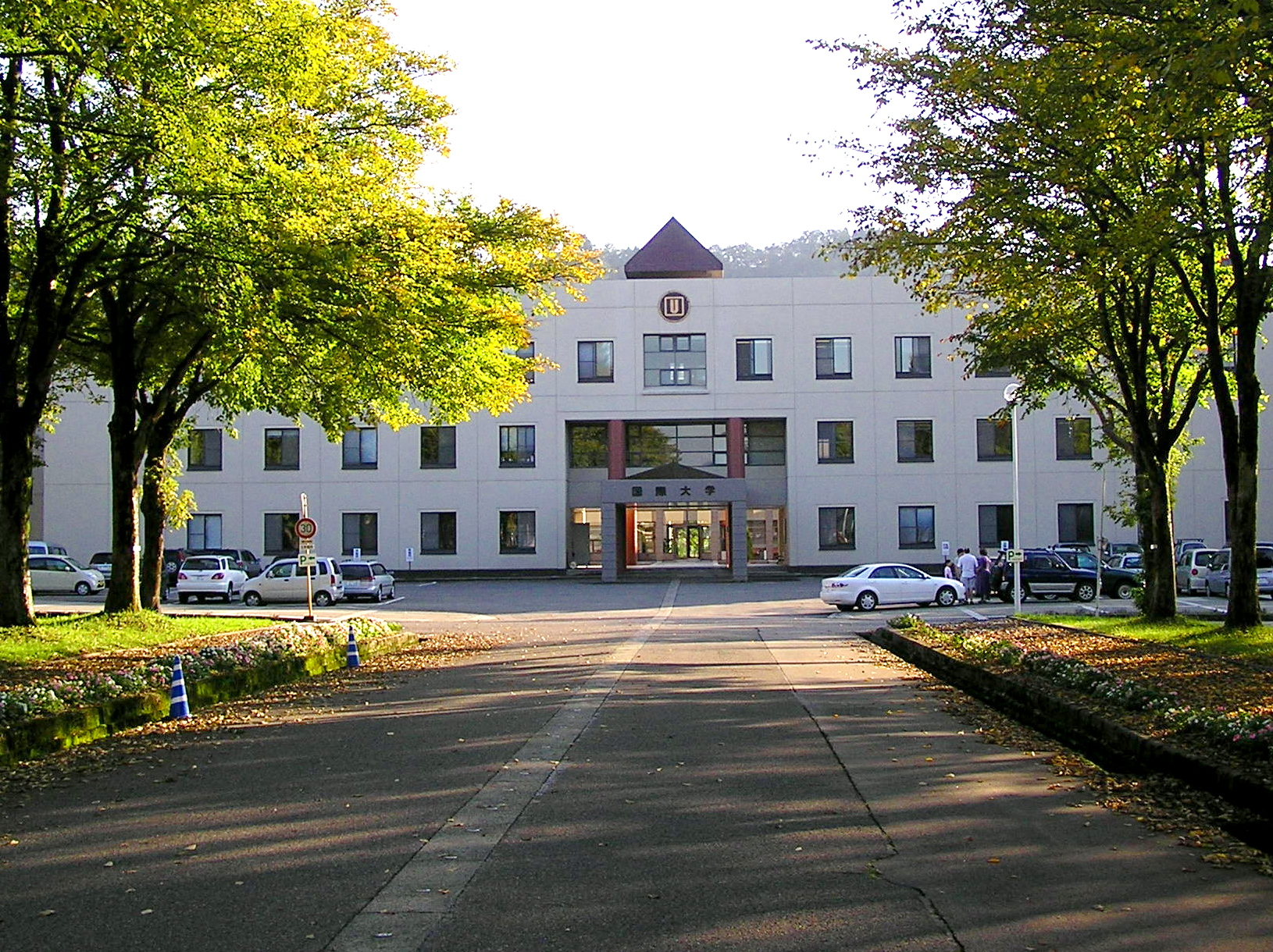 The tree-lined main entrance and facade of the International University of Japan. Photo by: S. J. Wong